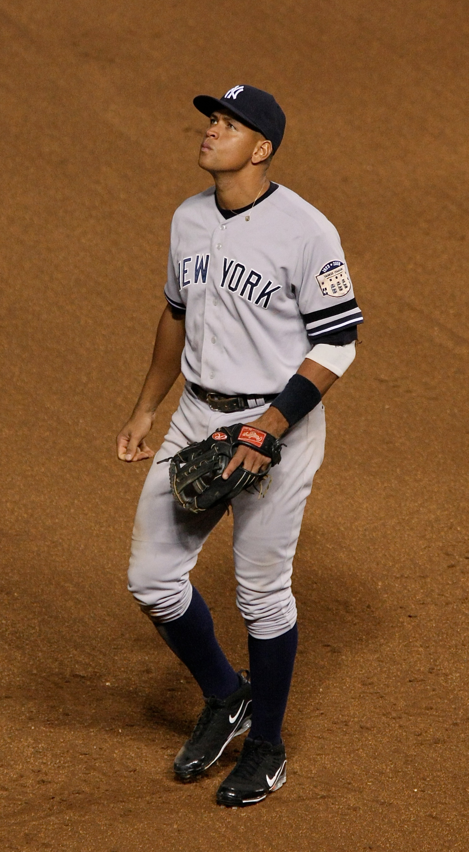 Alex Rodriguez in the field during a game on August 22, 2008.